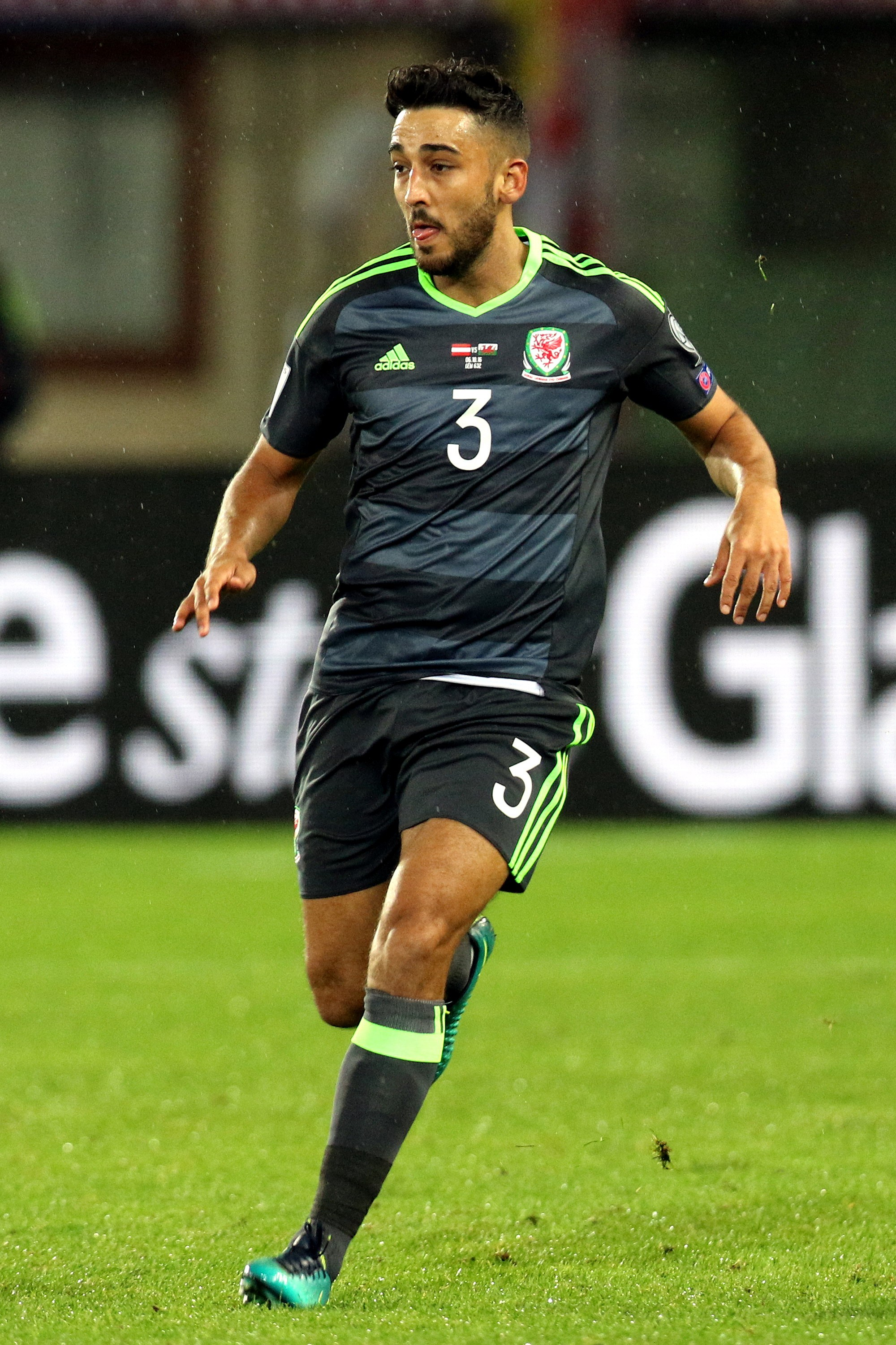 2018 FIFA World Cup qualification – UEFA Group D) – Austria (red shirts) vs. Wales (white shirts) 2-2 (1-2) – 2016-10-06 in Vienna, Ernst-Happel-Stadion – The photo shows Neil Taylor.